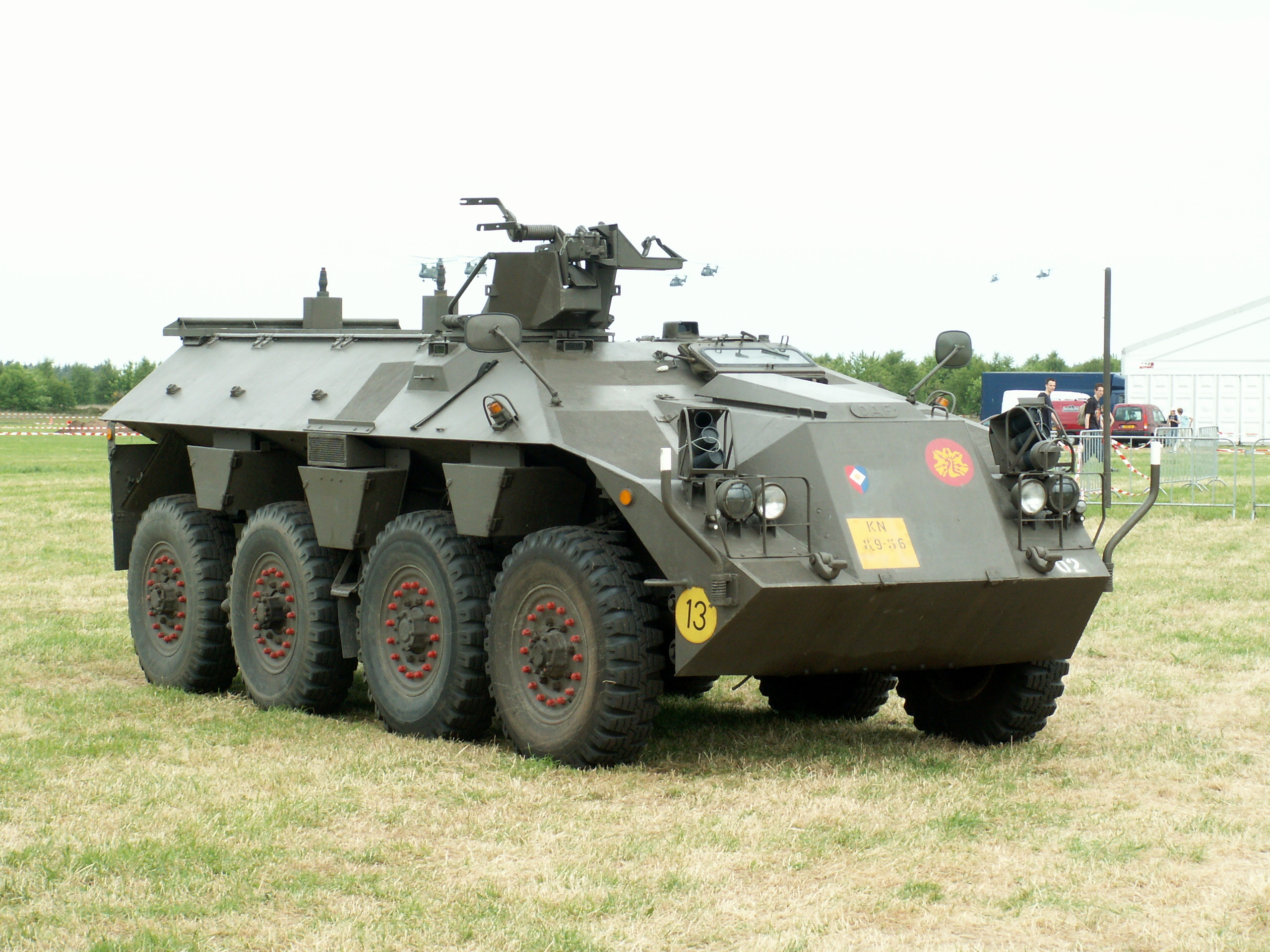 Photographed at the Landmachtdagen 2005.